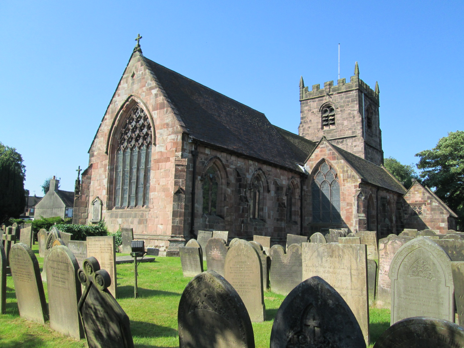 St Edward's Church, Cheddleton